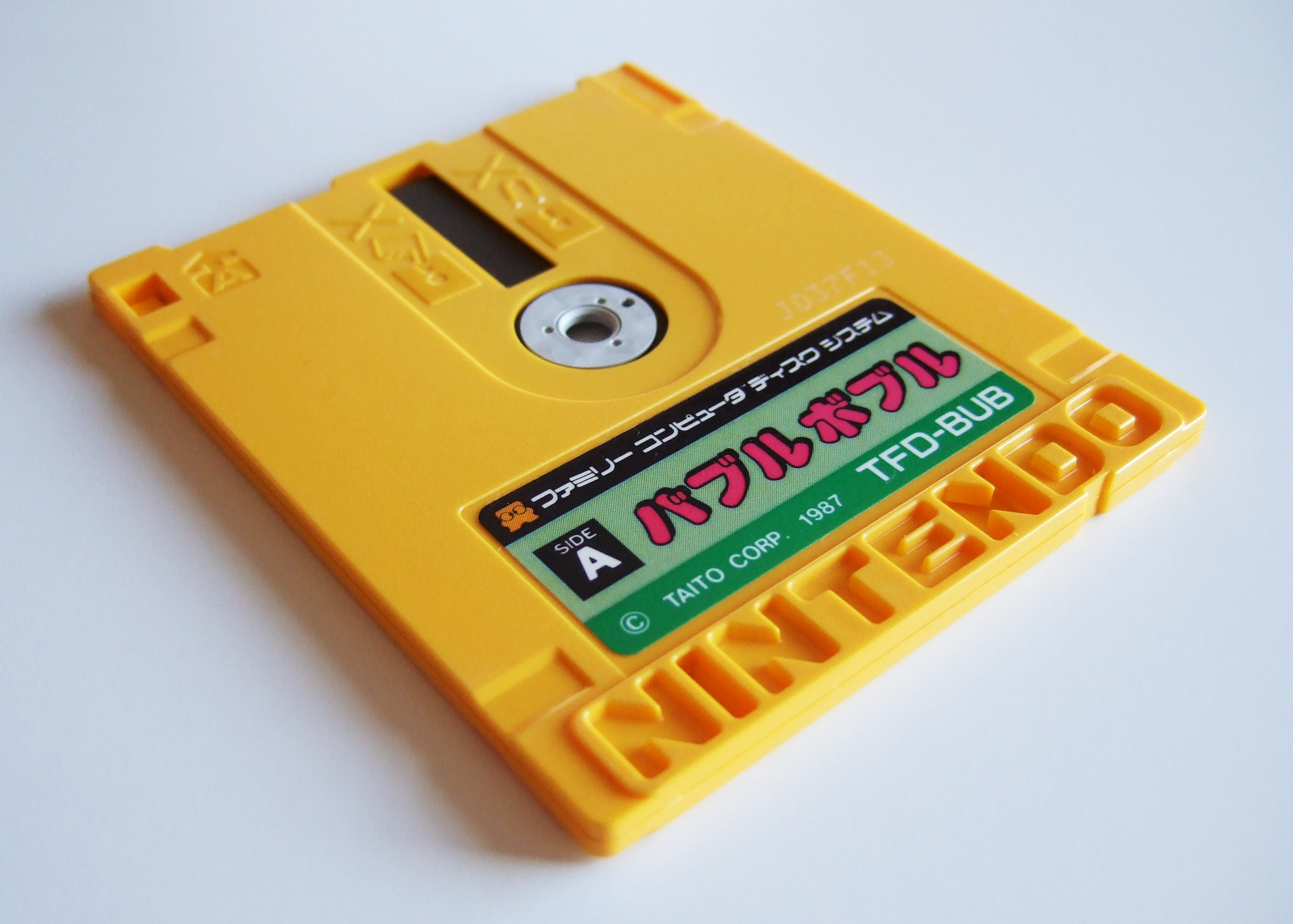 Bubble Bobble disk for the Japan-only Famicom Disk System.